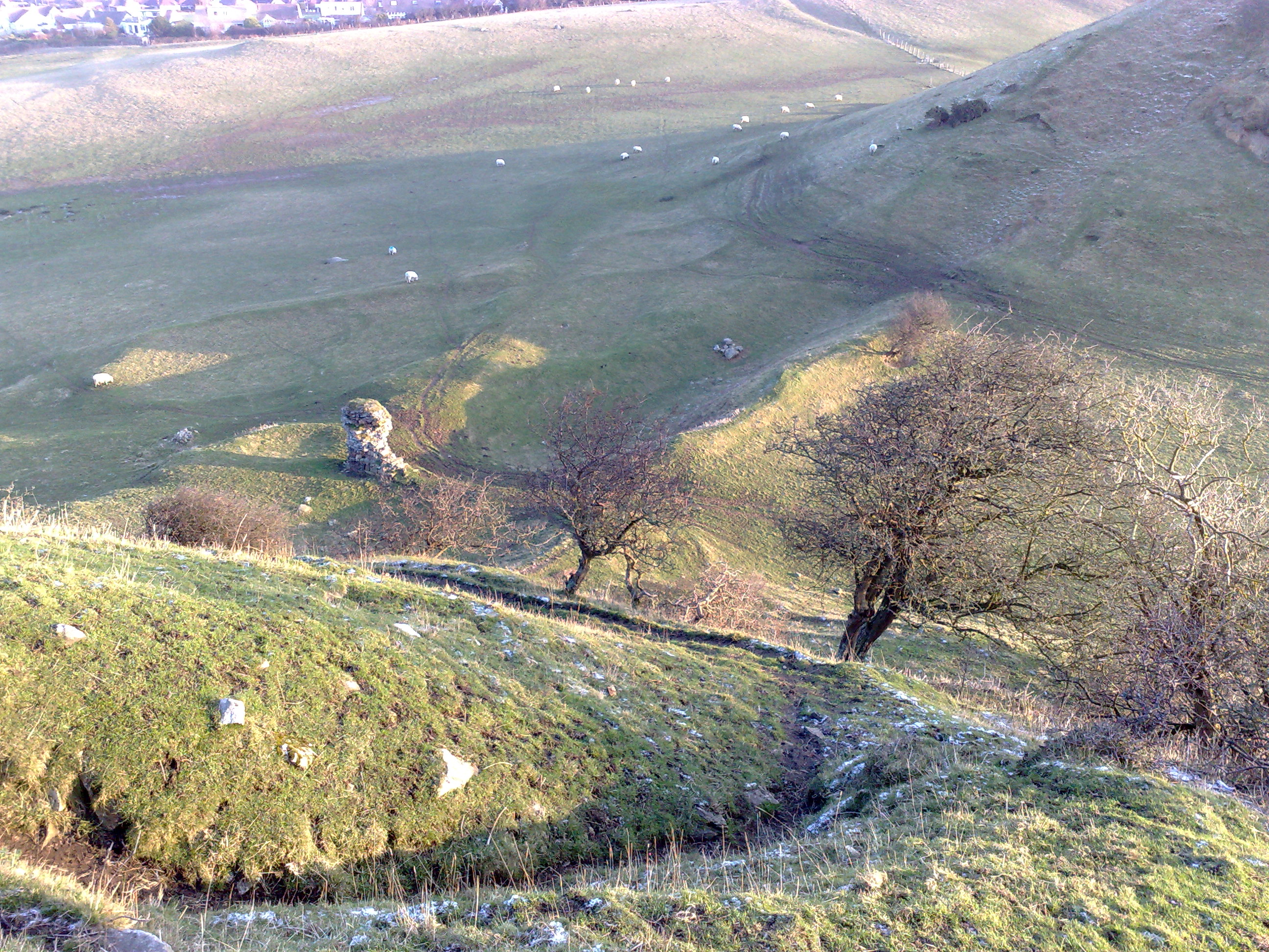 Ruins of the main entrance to Deganwy seen from one of the internal "towers"